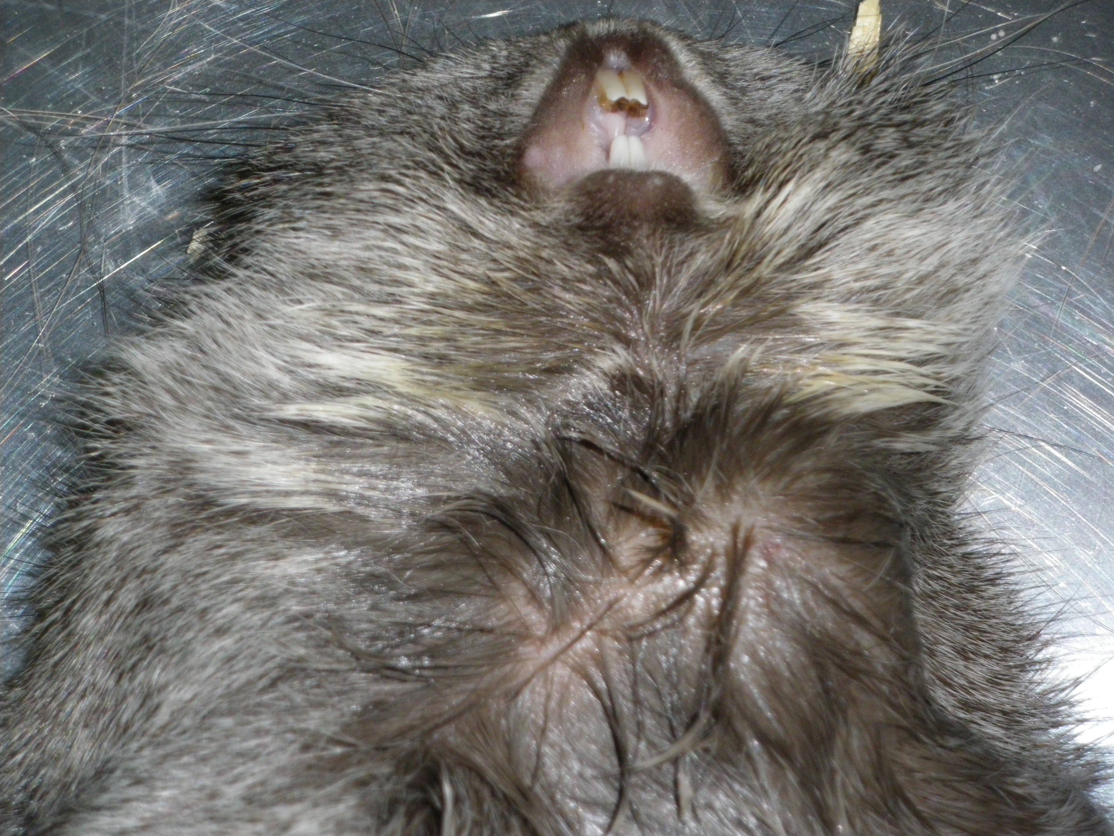 Guinea pig with leucosis: swelling of neck lymph nodes